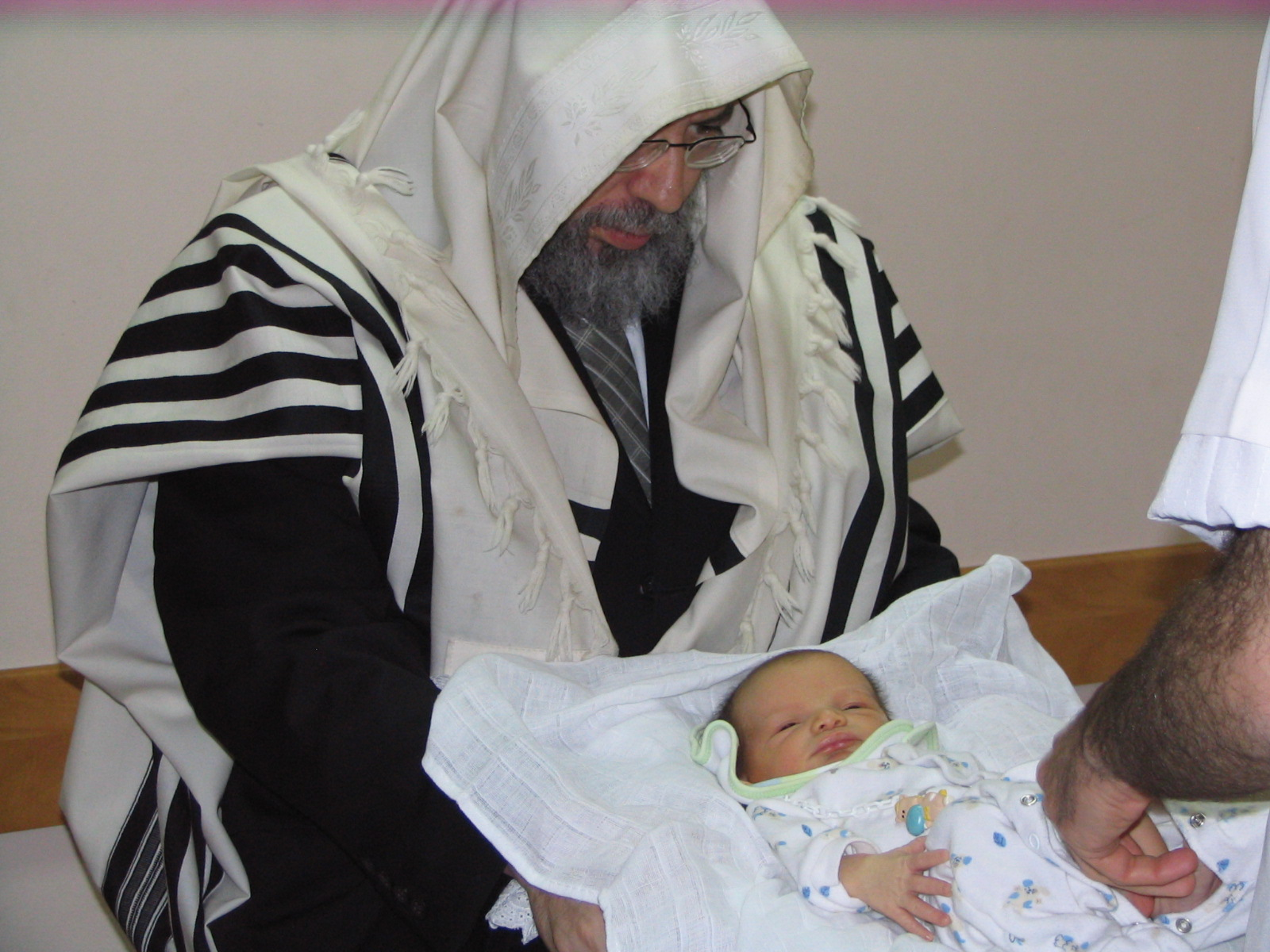 Rabbi Haber acting as sandek for a Brit milah, May 2009 by Shaul Behr